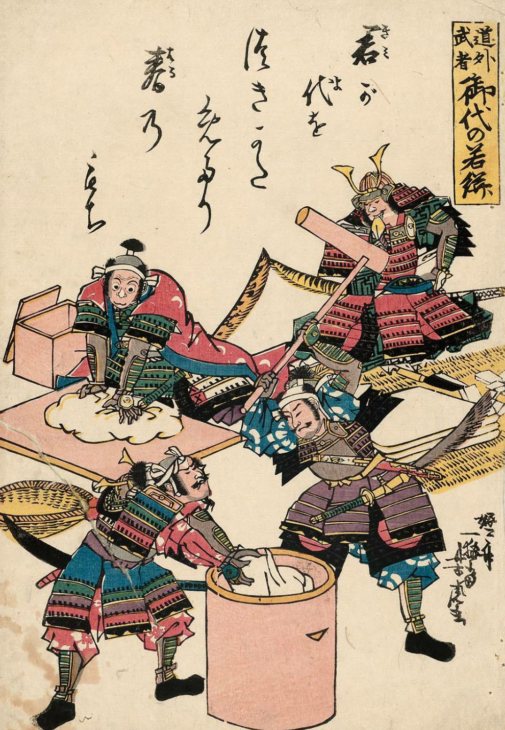 Comical Warriors: New Year's Rice Cakes for the Reign of Our Lord